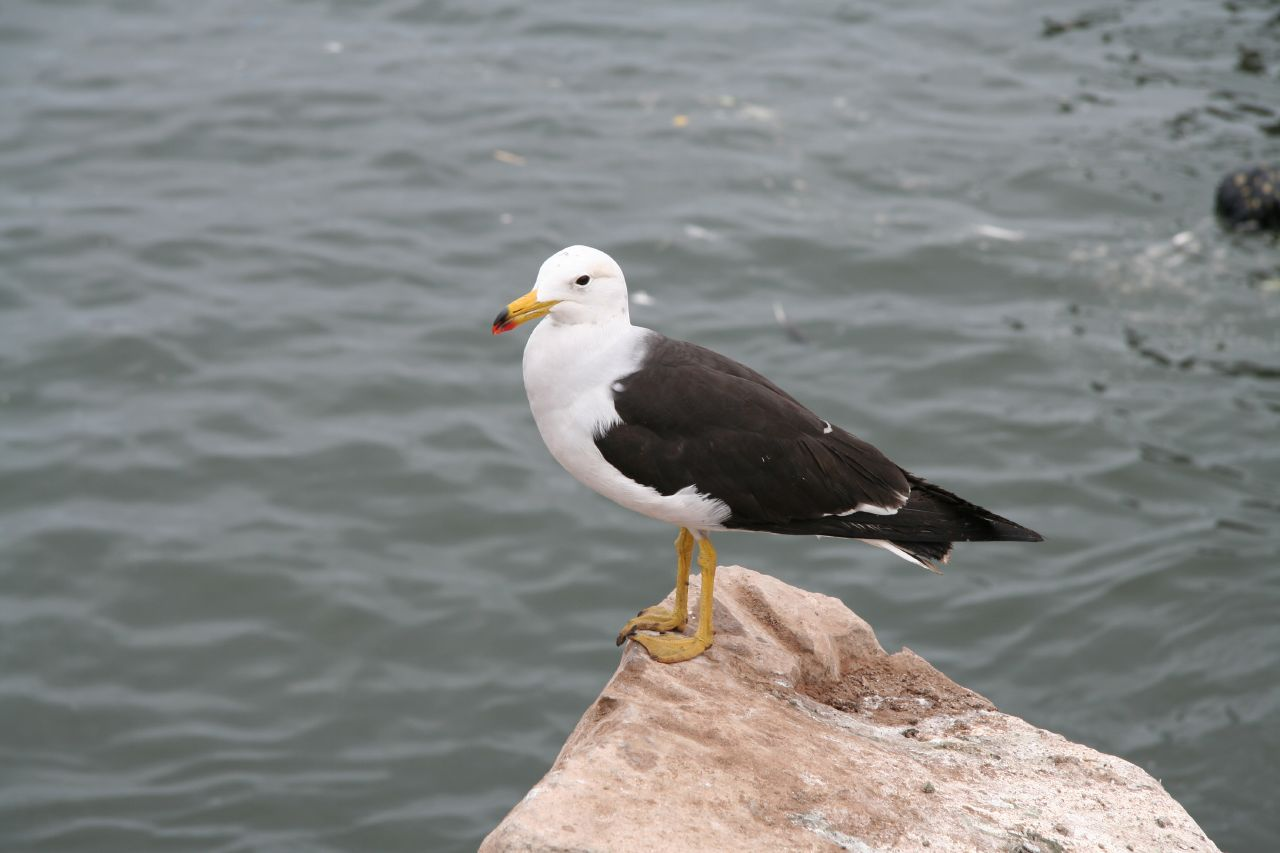 Larus belcheri, Arica, northern Chile